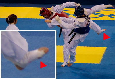 Aaron Cook Fighting in A Bronze Medal Match Against Zhu Guo at the 2008 Olympic Games, in the -80KG Event. - Tape als Ausschnitt